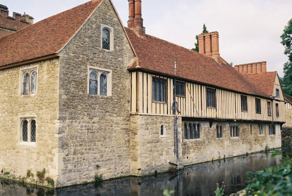 The South side of Ightham Mote, near Sevenoaks, Kent.